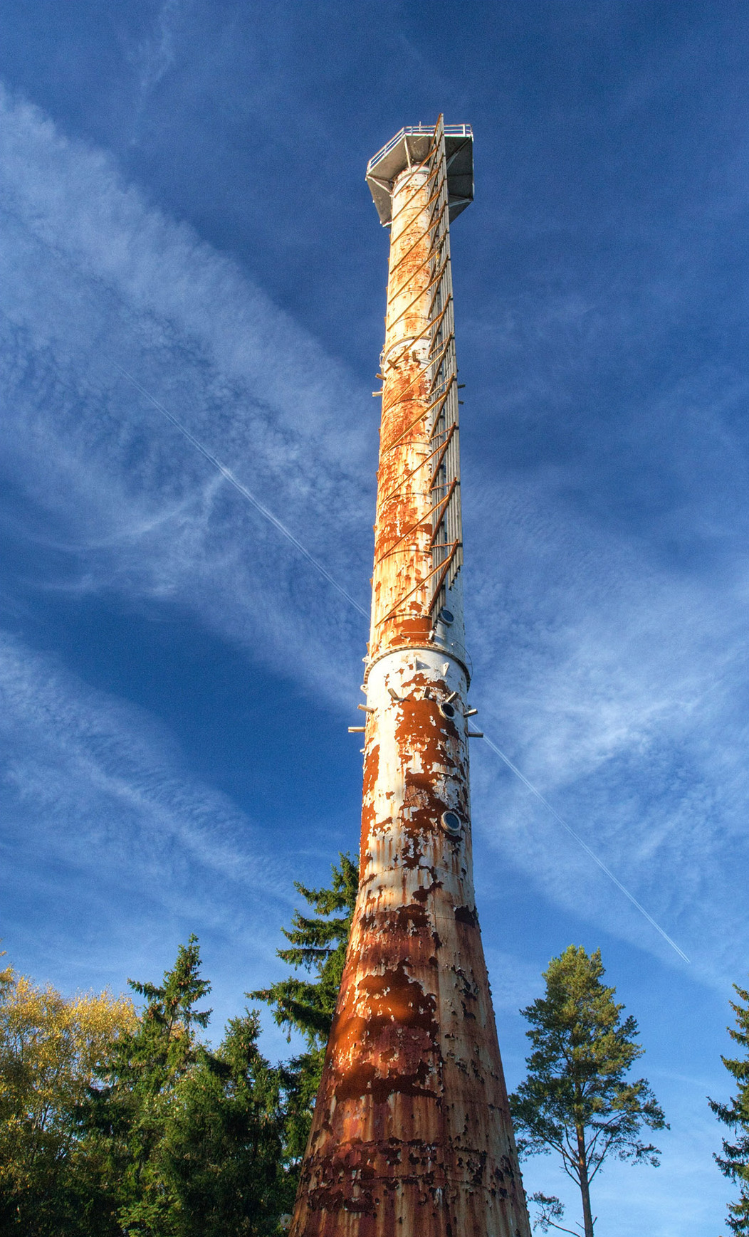 Tammneeme daymark